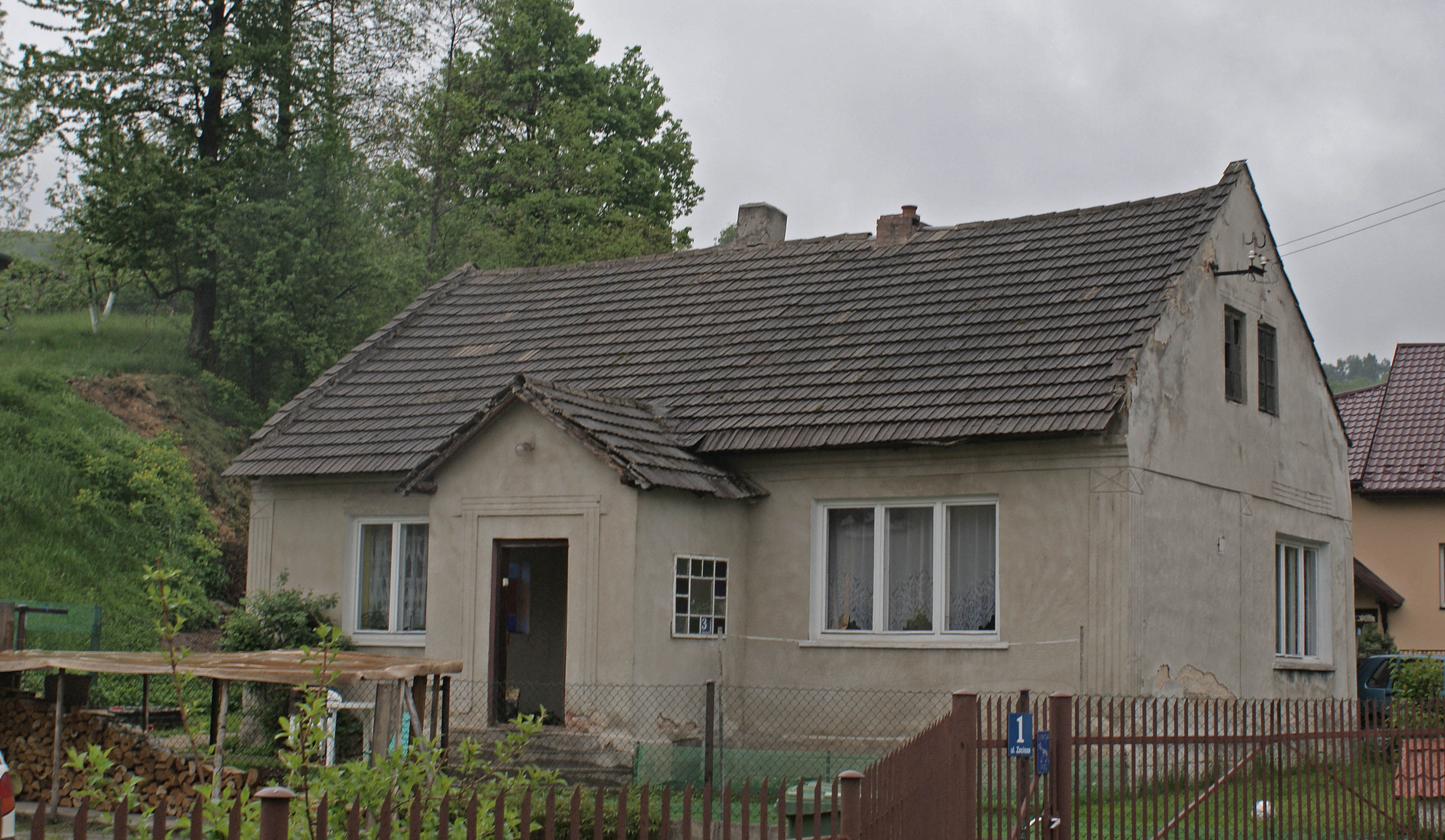 house referring to the polish mansion style